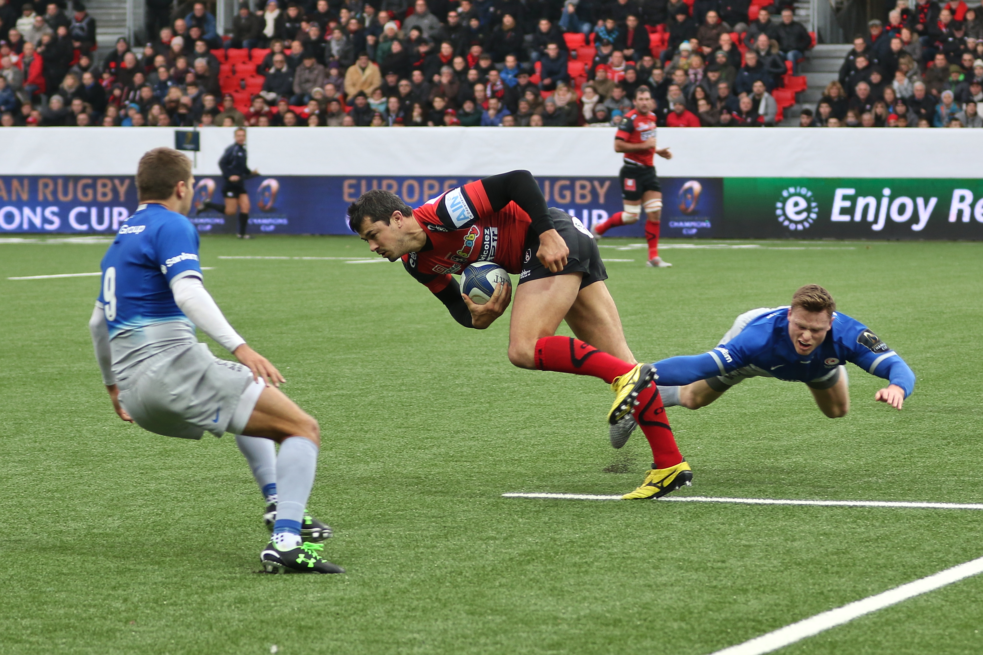 USO - Saracens - 20151213 - Richard Wigglesworth, Guillaume Boussès and Chris Ashton